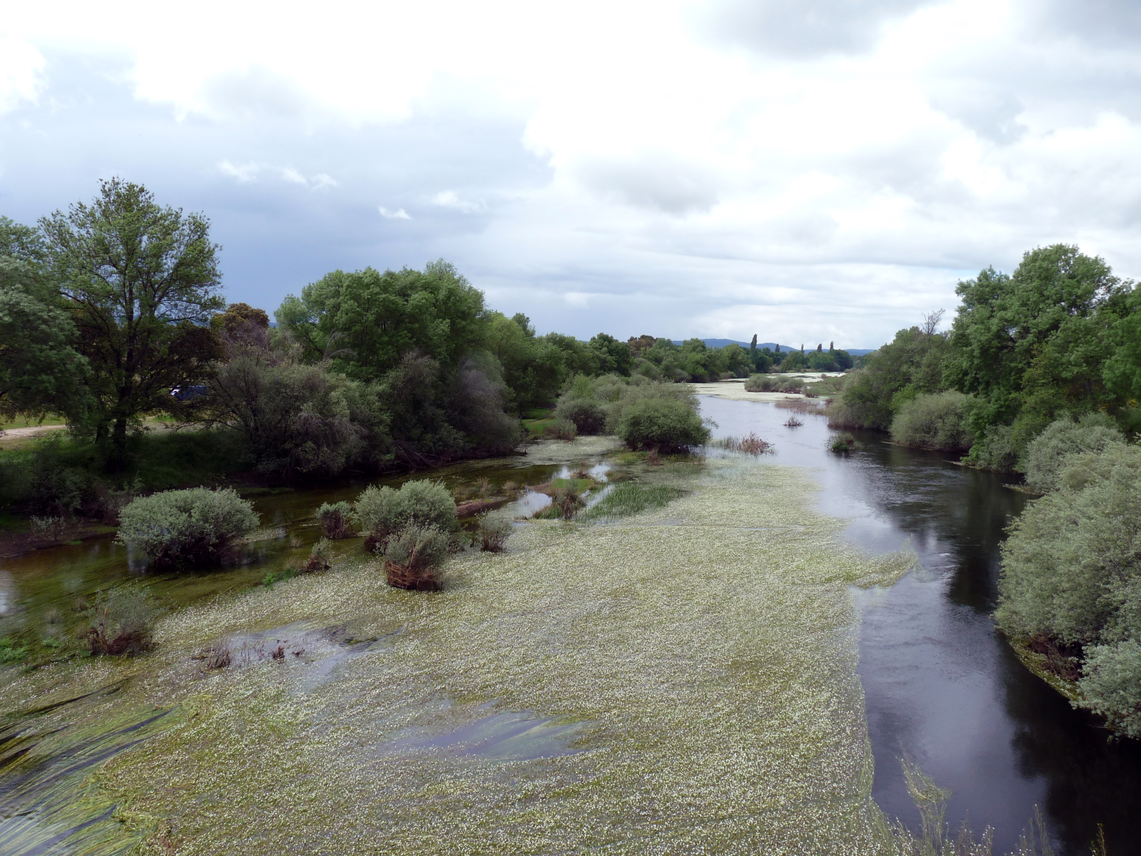 Tiétar River, Ávila, Castile and León, Spain.